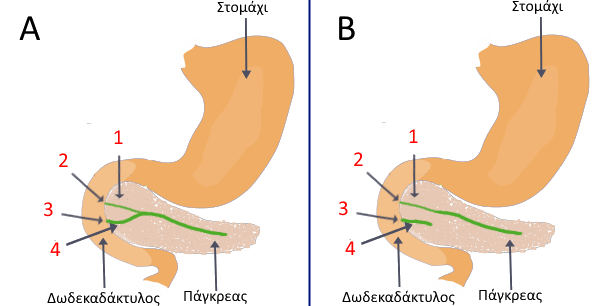 1) normal pancreas 2) pancreas divisum